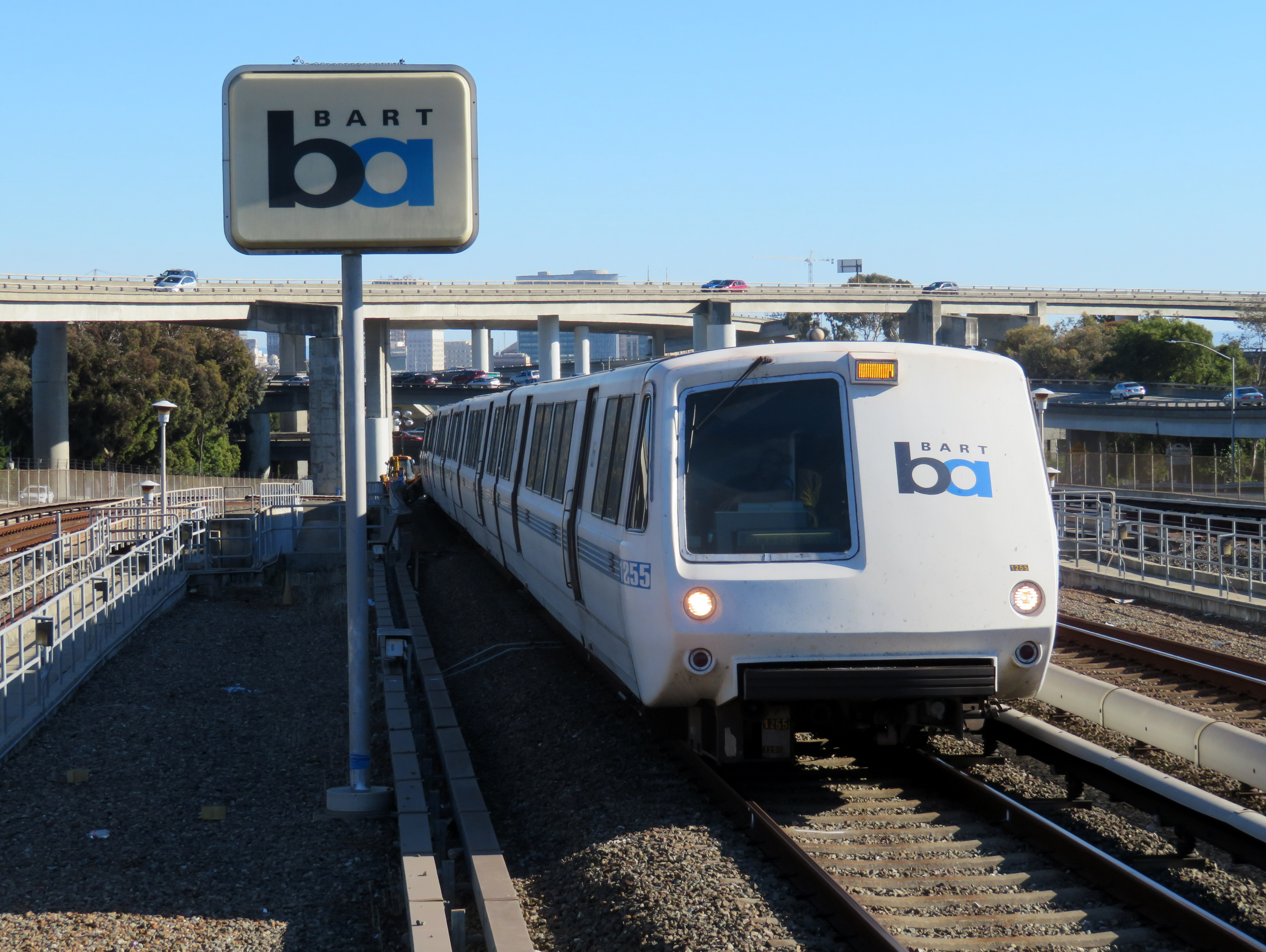 A Pittsburg/Bay Point-bound train approaching MacArthur station in June 2018